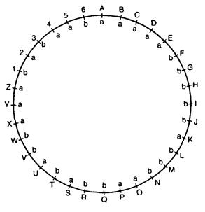 Cyclic string of characters.